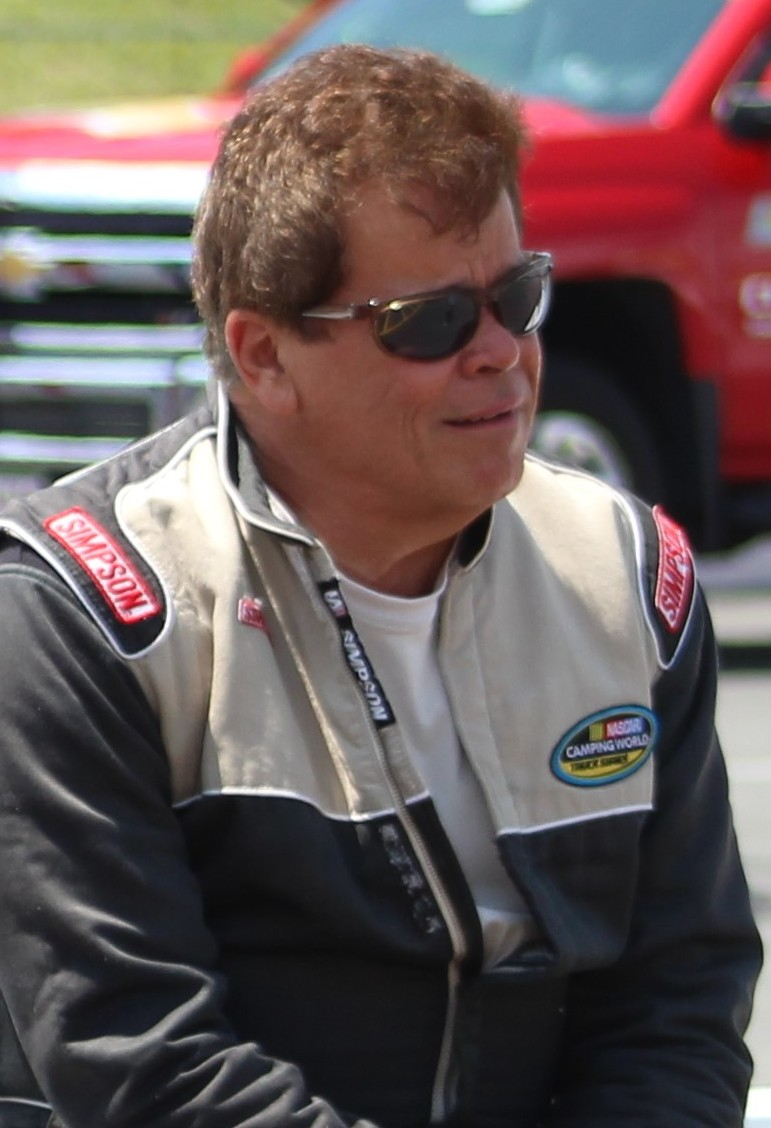 Drivers from the NASCAR Camping World Truck Series at Pocono Raceway in 2018. From left to right: Wendell Chavous, Ray Ciccarelli, Todd Peck, Camden Murphy, Norm Benning.